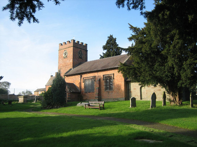 Ellenhall Church Ellenhall Church from within the church grounds